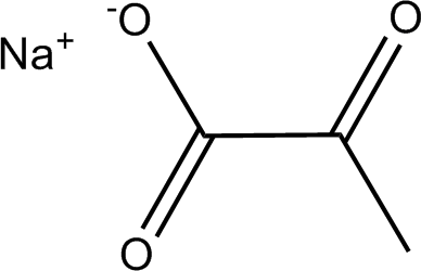 Sodium pyruvate chemical diagram